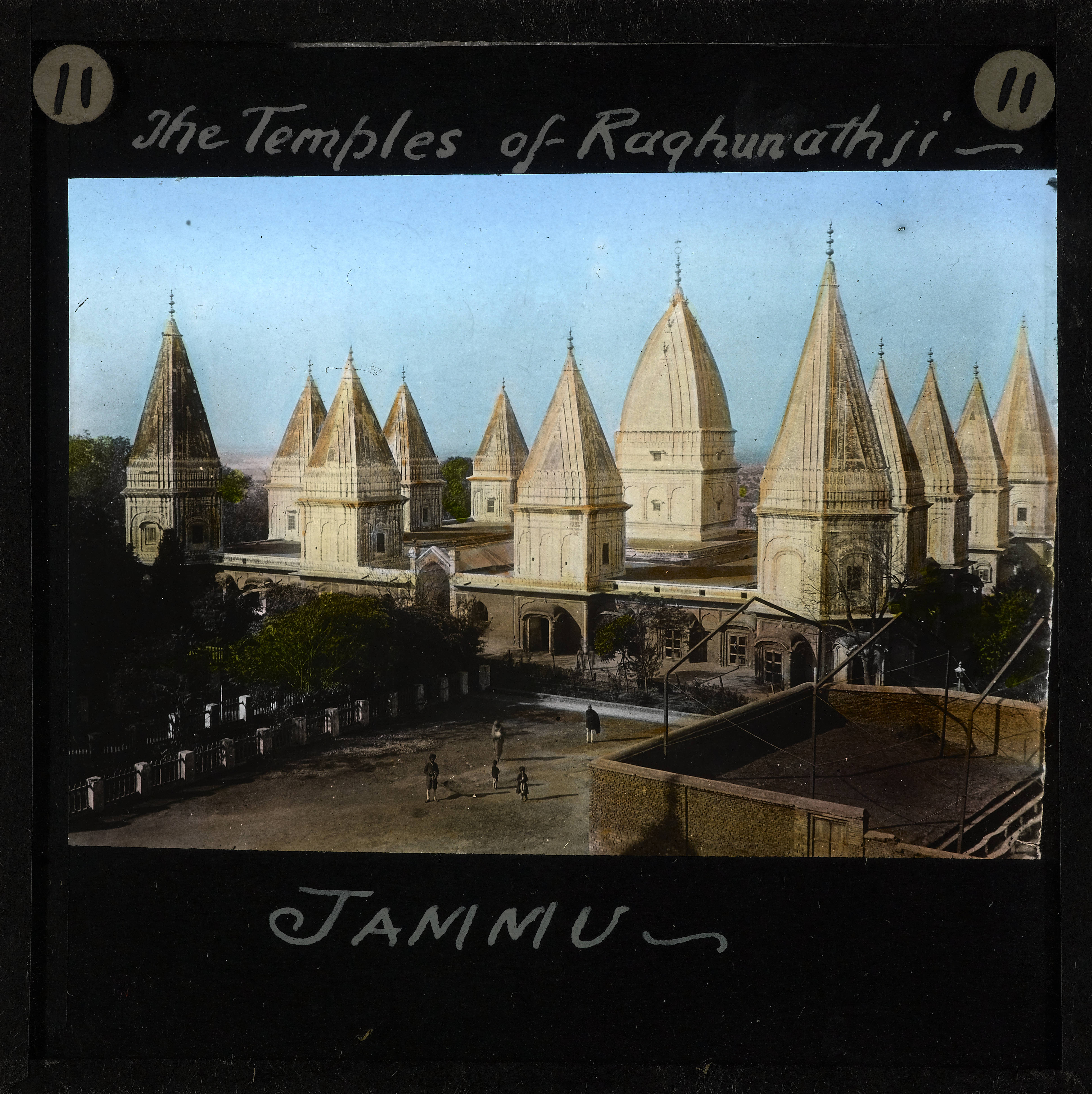 The Temples of Raghunath, Jammu, India, ca.1875-ca.1940 Photograph of the temples of Raghunath in the city of Jammu. Building of the temples commenced under Maharaja Gulab Singh in 1835 and they were completed by his son Maharaja Ranbir Singh in 1860. The temples can be seen from an elevated angle and there are people visible in an exterior courtyard.; This belongs to a series of Church of Scotland Foreign Missions Committee lantern slides relating to Jammu City, which is also known as the "City of Temples". A mission station occupied by Church of Scotland missionaries was founded here in the late 19th/early 20th century. Jammu is also one of the three administrative divisions within Jammu and Kashmir, the northernmost state in India. Photographer: Unknown Filename: imp-cswc-GB-237-CSWC47-LS10-011.tif Coverage date: 1875/1940 Part of collection: International Mission Photography Archive, ca.1860-ca.1960 Geographic subject (region): Jammu and Kashmir Type: images Part of subcollection: Photographs from the Centre for the Study of World Christianity, University of Edinburgh, U.K., ca.1900-ca.1940s Repository name: Centre for the Study of World Christianity Archival file: impaunpub_Volume7/1727.url Repository address: The University of Edinburgh School of Divinity, New College, Mound Place, Edinburgh EH1 2LX, United Kingdom Geographic subject (country): India Format (aacr2): 1 lantern slide : 8 x 8 cm. Geographic subject (continent): Asia Rights: Contact the repository for details. Part of series: In the Temple City of Jammu LS10 Repository Subject (lcsh Keyword): Temples Date created: 1875/1940 Publisher (of the digital version): University of Southern California. Libraries Subject (aat genre): exterior views Format (aat): lantern slides Legacy record ID: impa-m69235 Access conditions: File: GB 237 CSWC47/LS10/11